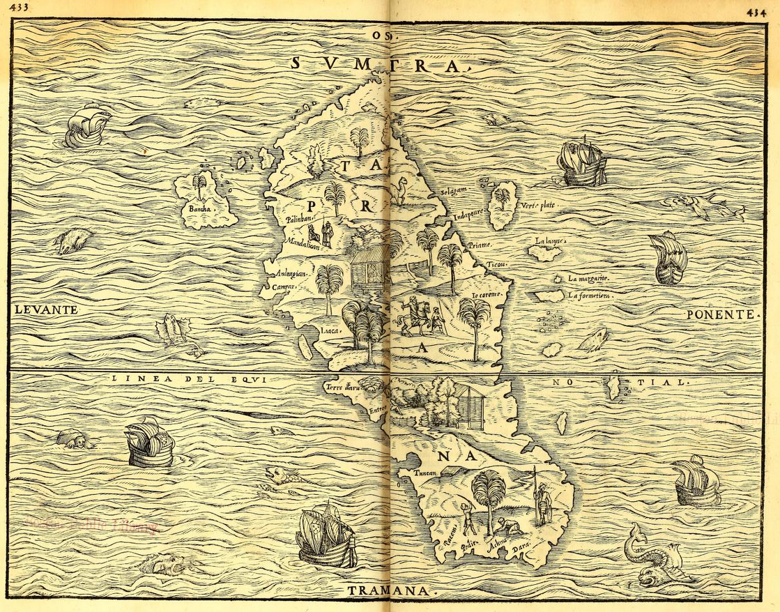 Map of Sumatra in G.B. Ramusio's Delle Navigationi et Viaggi, volume 3.